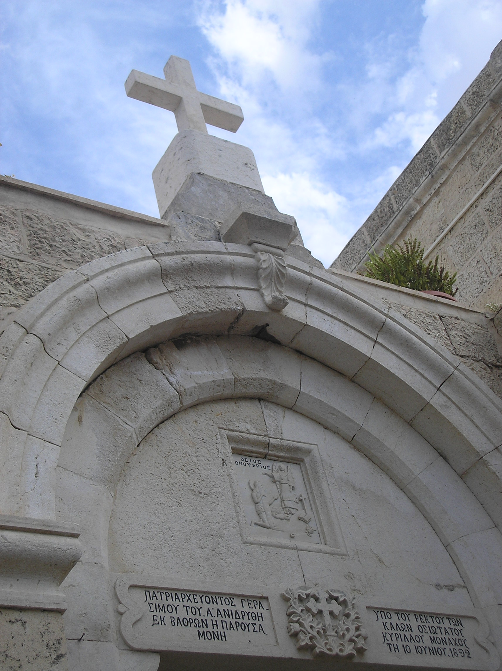 Jerusalem, Aceldama - The gate of the Onuphrius Monastery